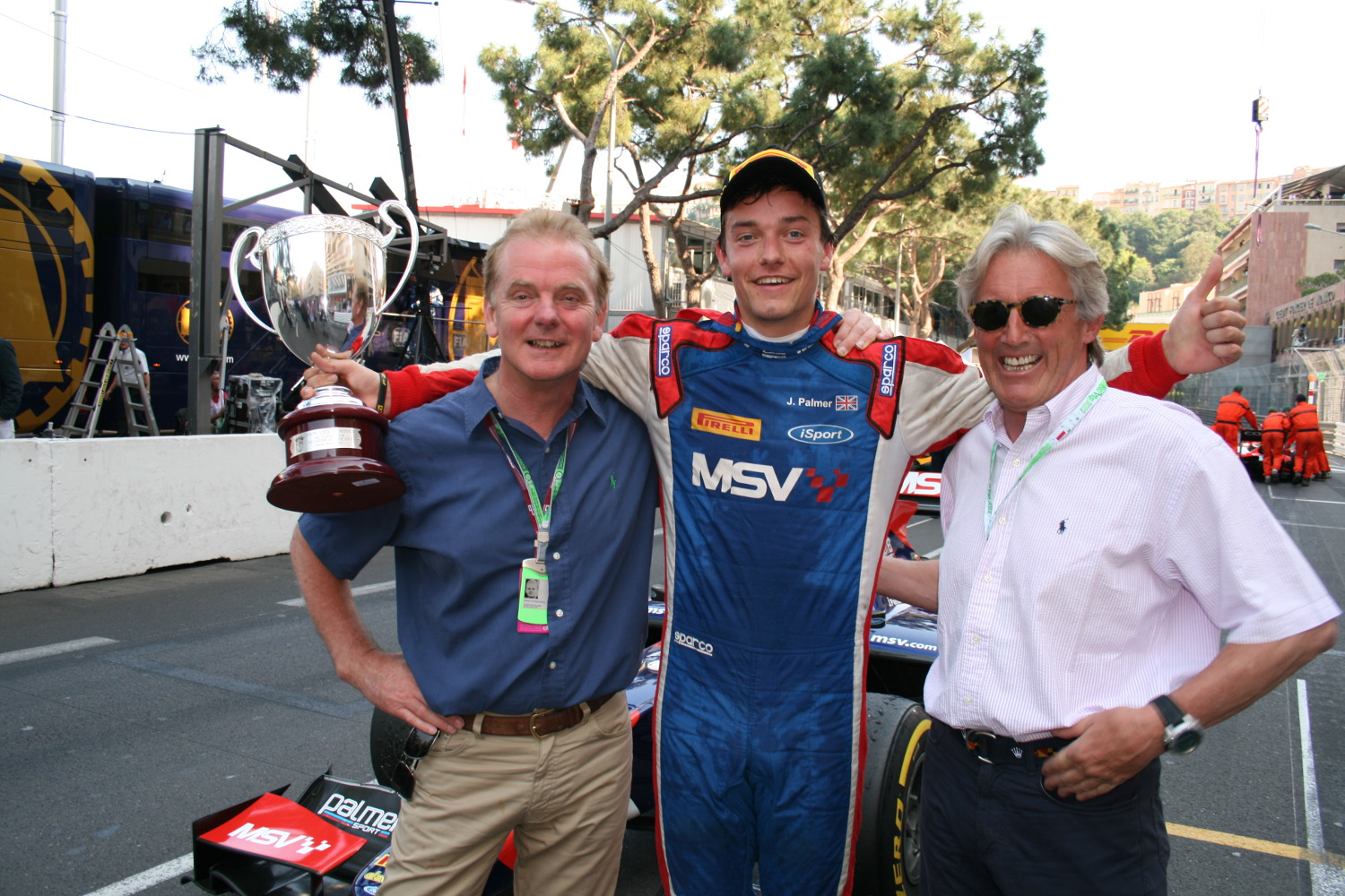 Jolyon Palmer celebrates his Monaco GP2 win in 2012